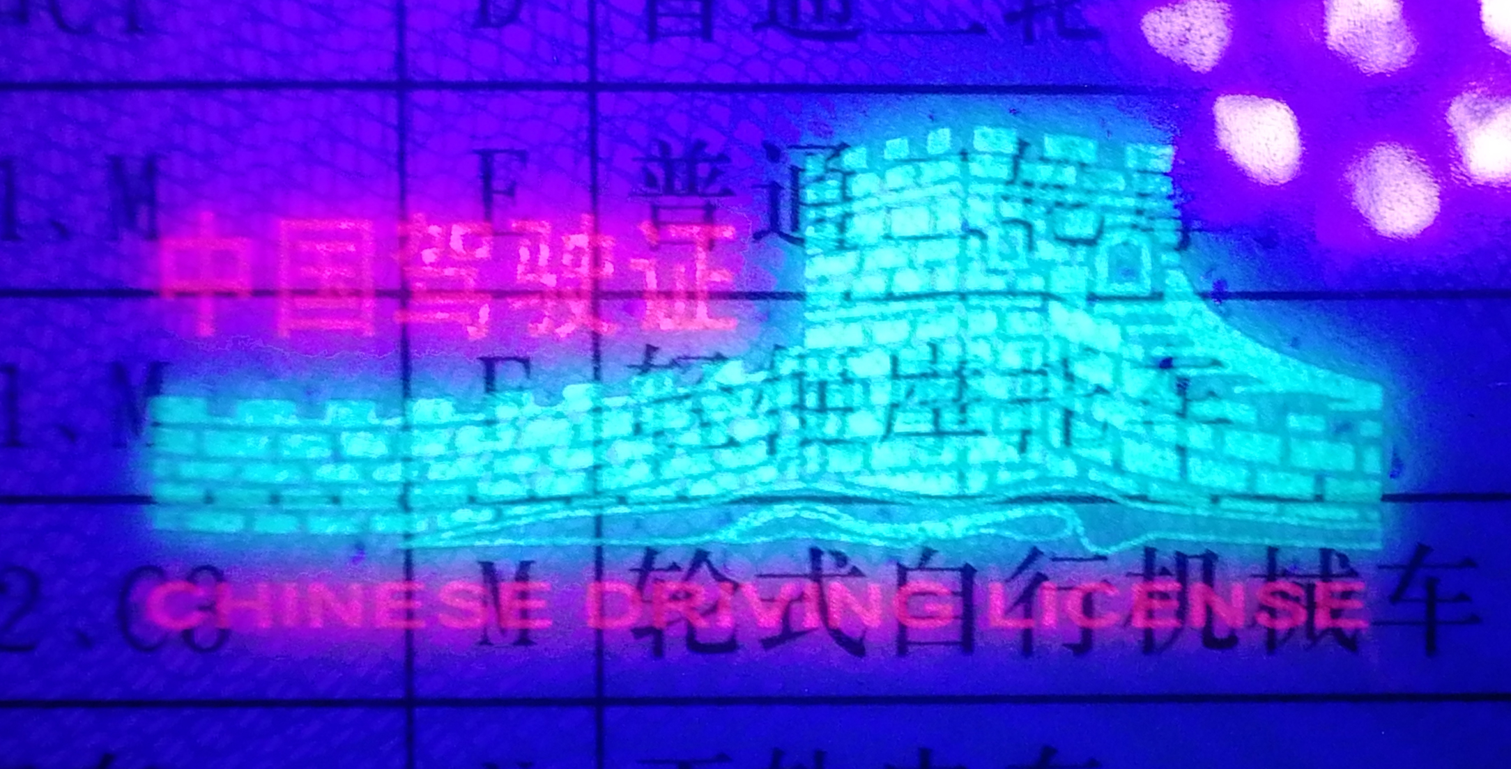 Anti-counterfeiting Design of Chinese Driving License